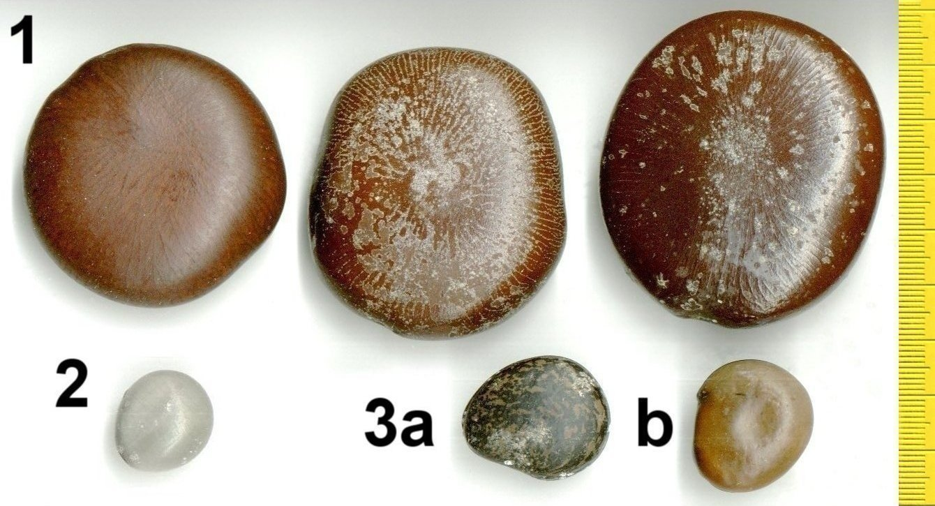 Drift seeds of three legume species, found in May 2004 at Kanda village, on the southern Mozambique coast. The species are: Sea bean, Entada rheedii, Mimosaceae Nickernut, Caesalpinea bonduc, Caesalpineaceae Giant mucuna, Mucuna gigantea, Fabaceae (two forms shown, mottled and tan, possibly from different origins)